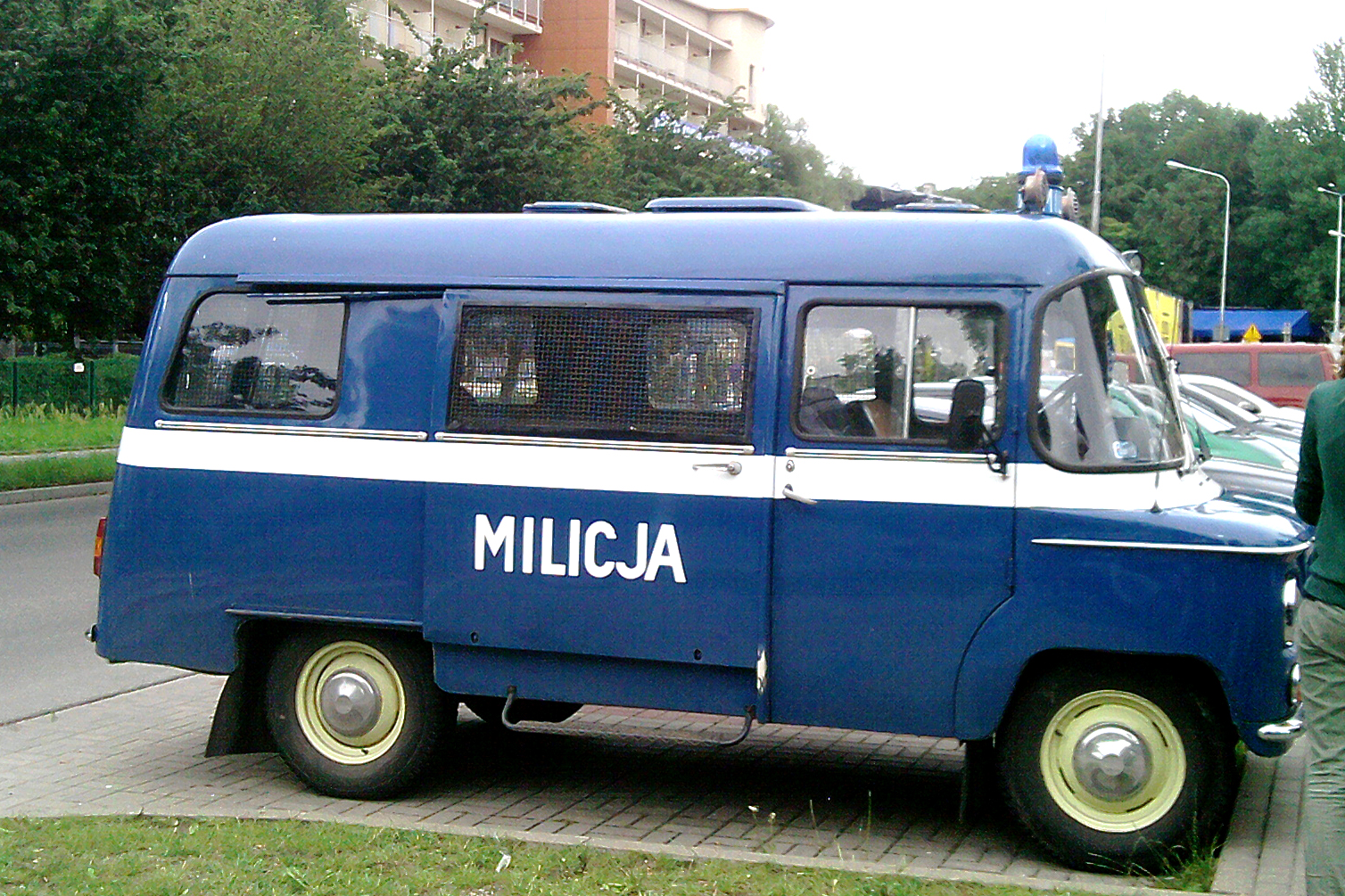 Nysa 522 OW of the Polish Militia.